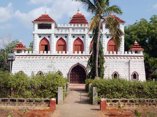 Kattabomman Fort